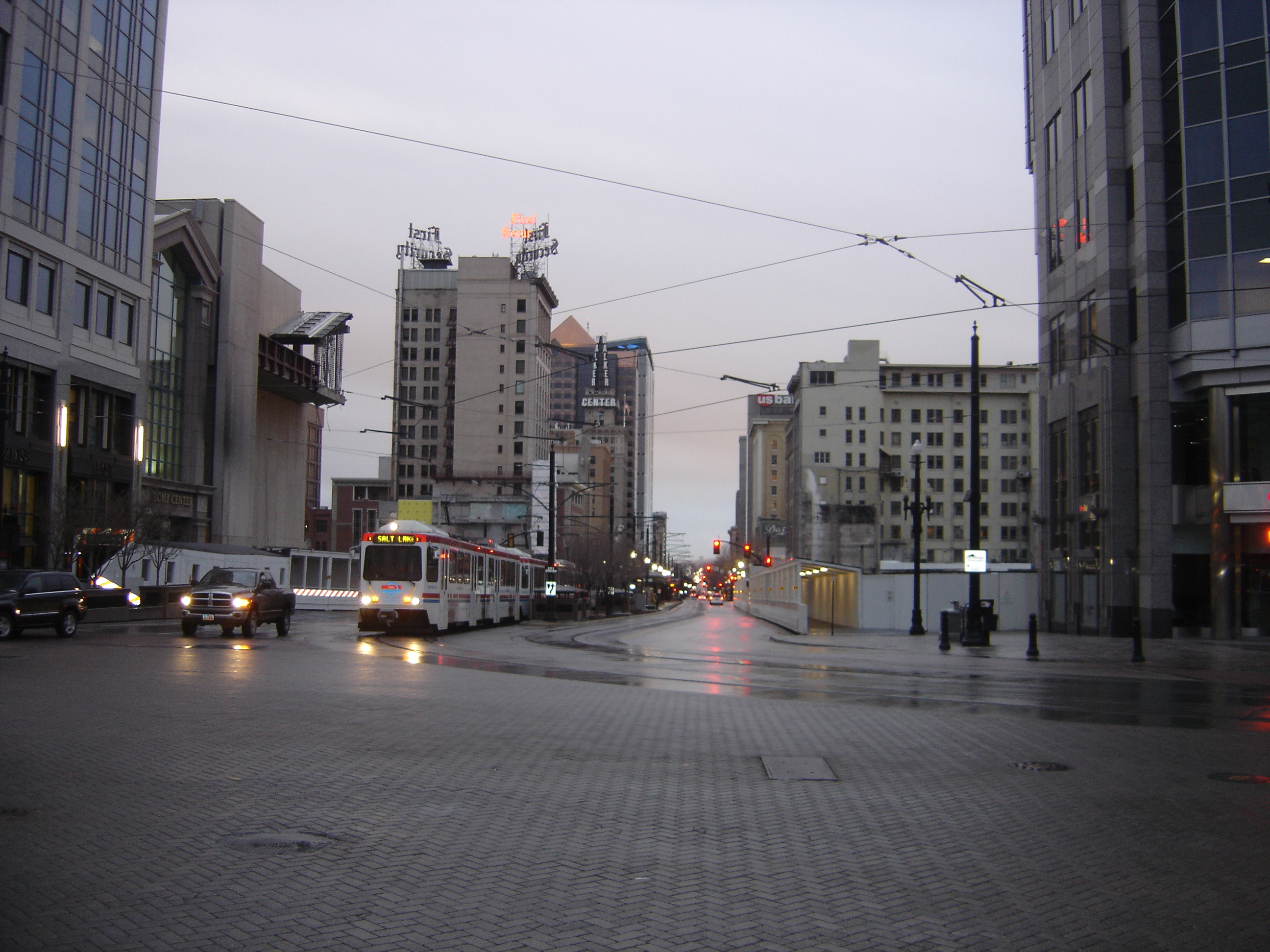 A UTA TRAX train departing the City Center station in downtown Salt Lake City, Utah.